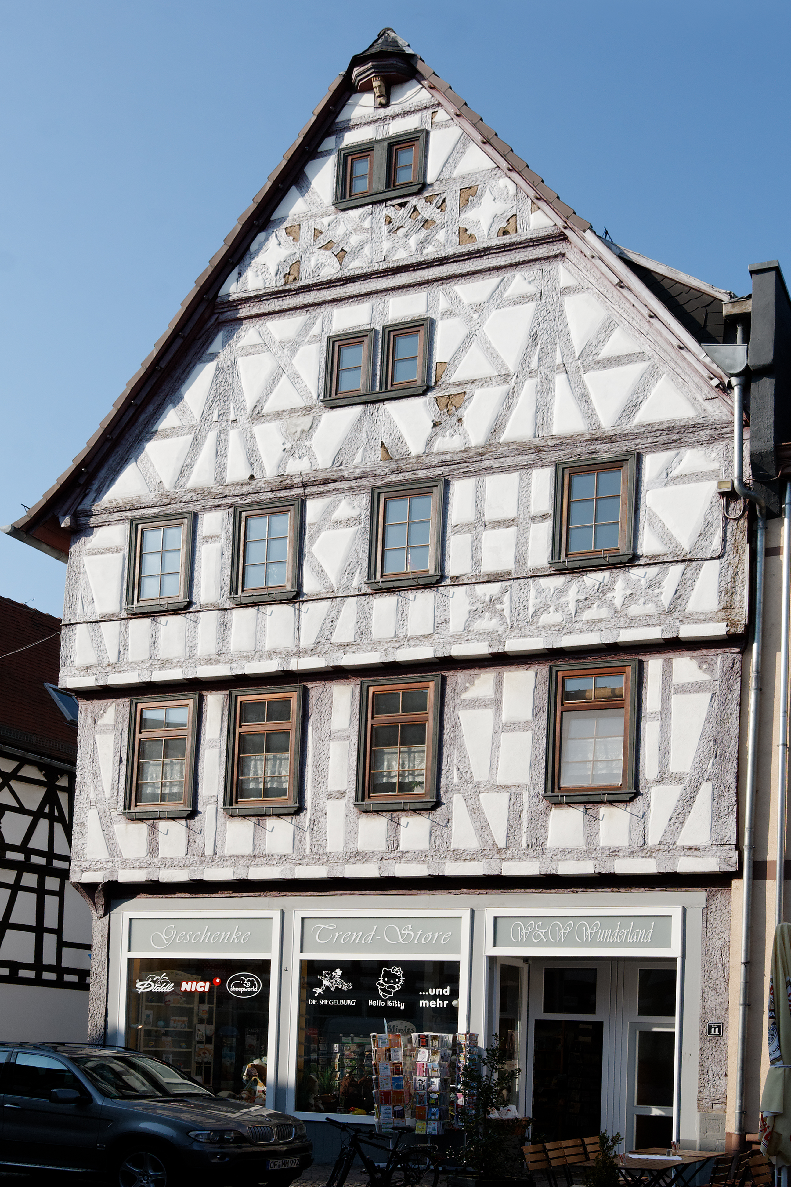 Half-timbered house in Seligenstadt (Hessen) with representative, decorative half-timbering. Under the eaves a carved head is visible. The cleats on the corner post of the ground floor are dated to 1579. A wooden column in the ground floor has a rich Renaissance carving, albeit mostly obscured.